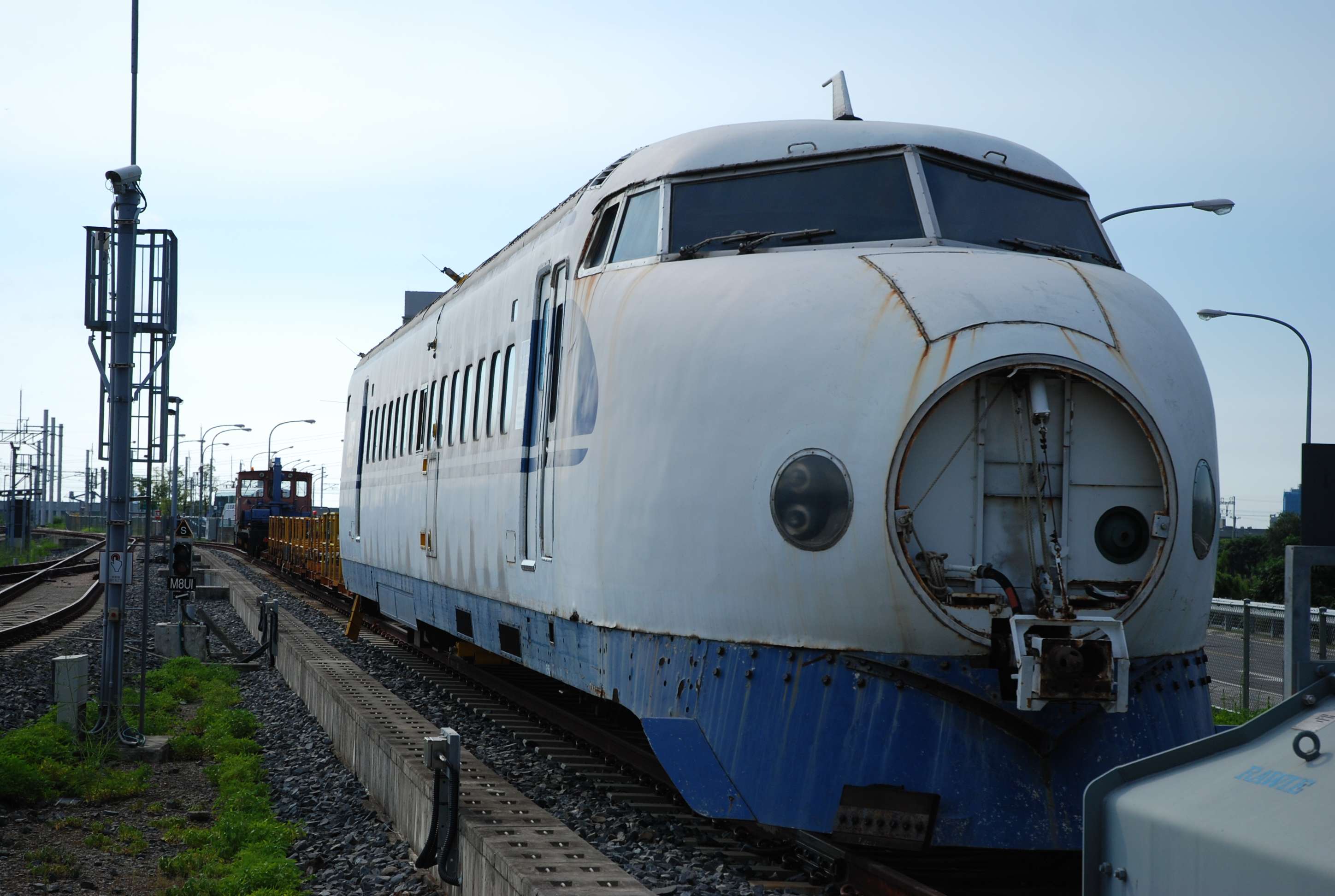 Taiwan High Speed Rail Structure Gauge Test Car 21-5035